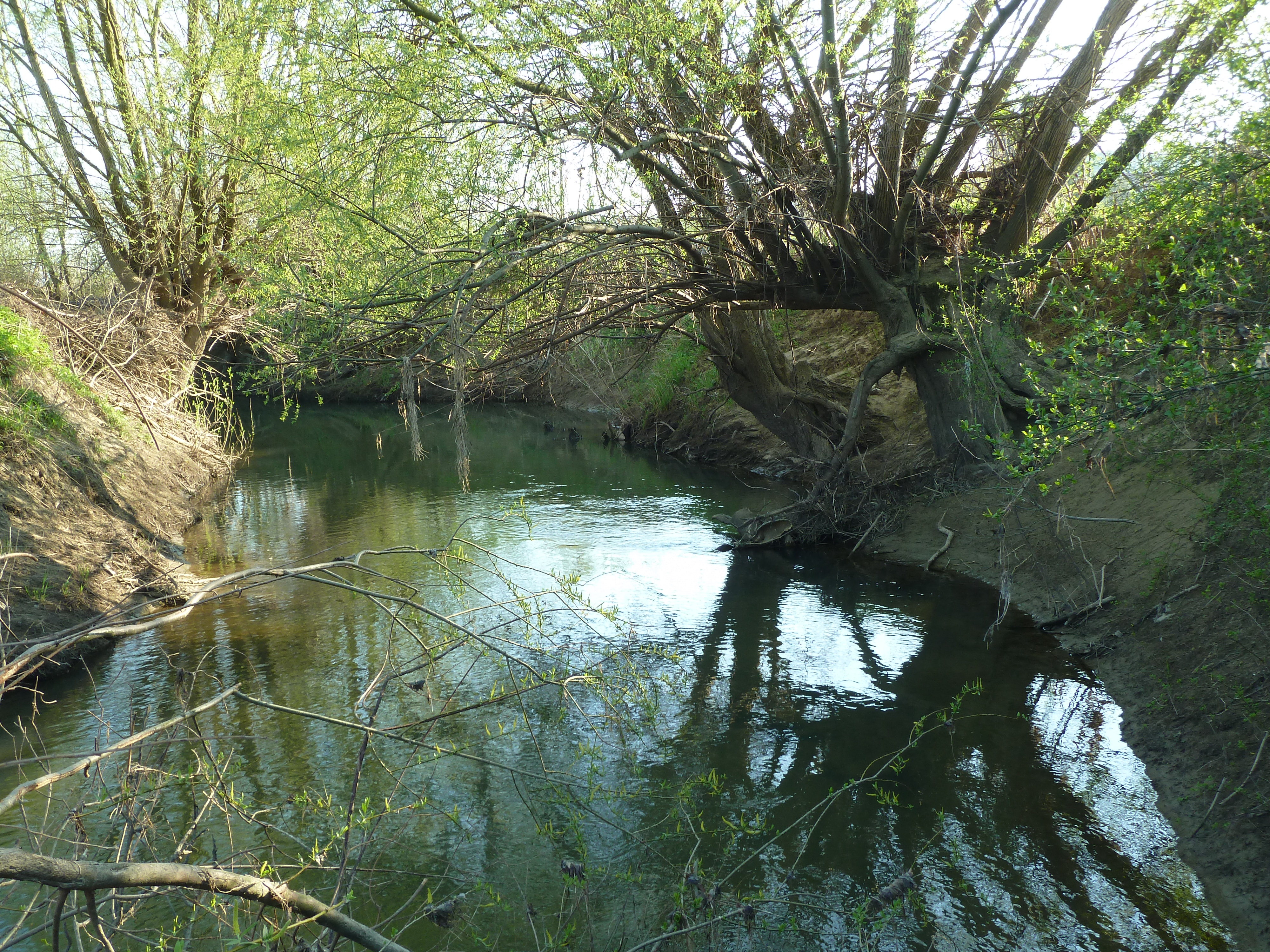 Sotla River at the village of Imeno